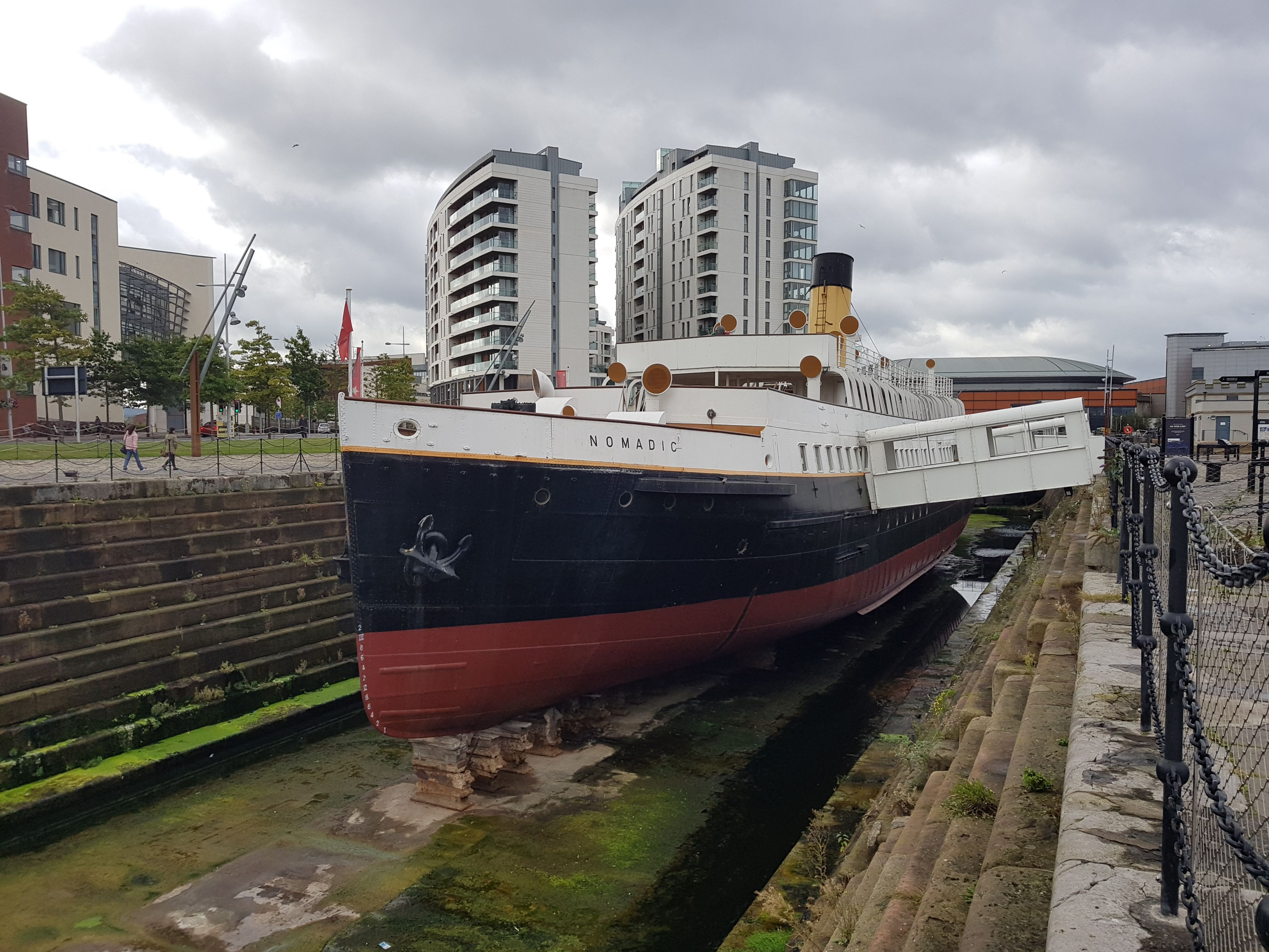 SS Nomadic (1911), last surviving White Star Line vessel